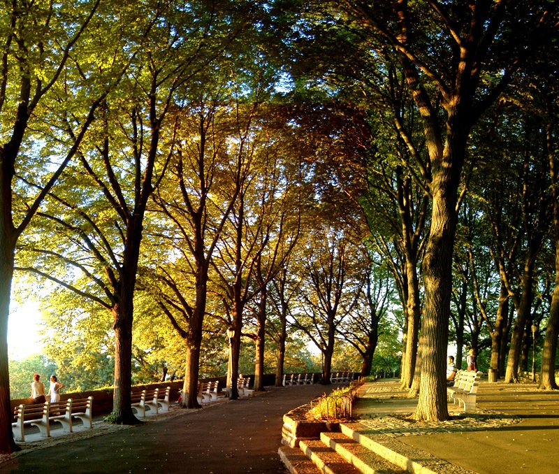 Ft. Tryon Park near flagstaff, New York